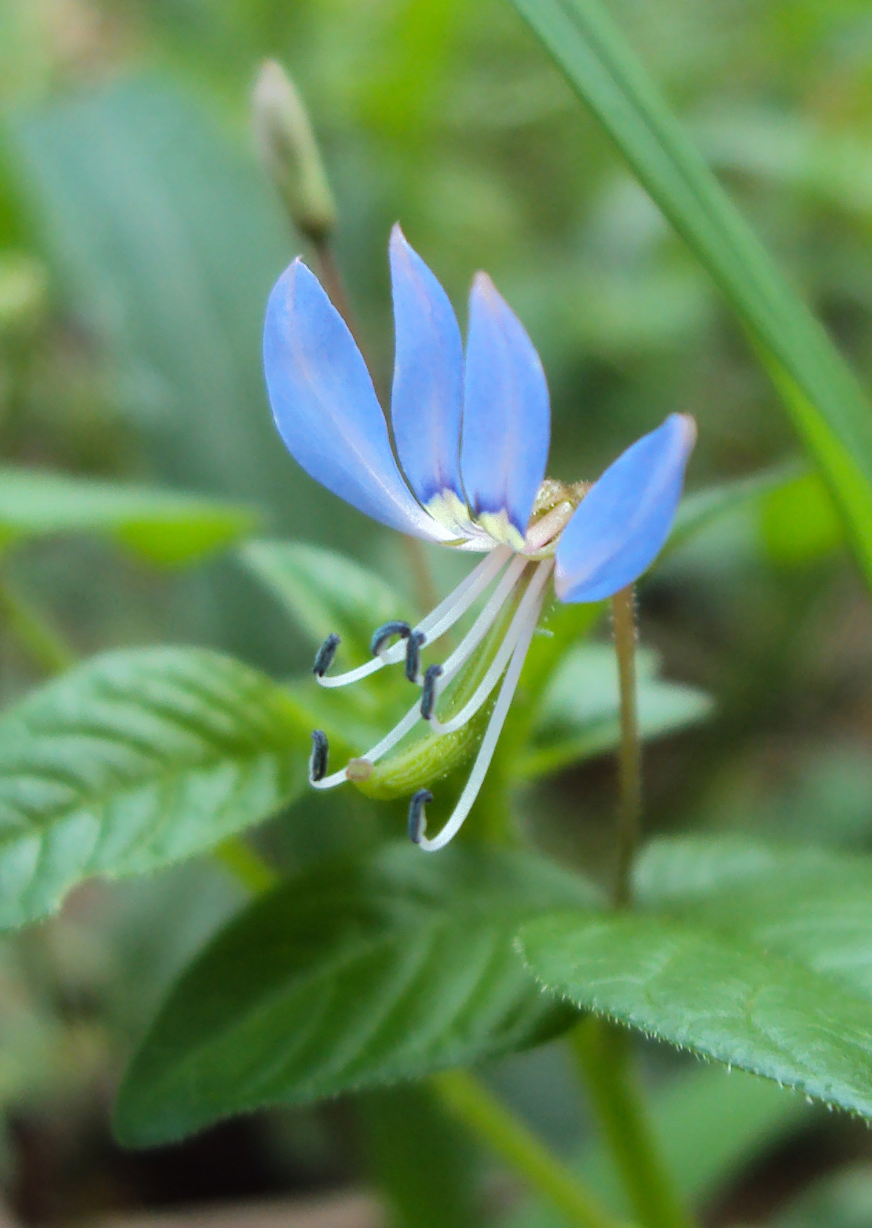 Flowers